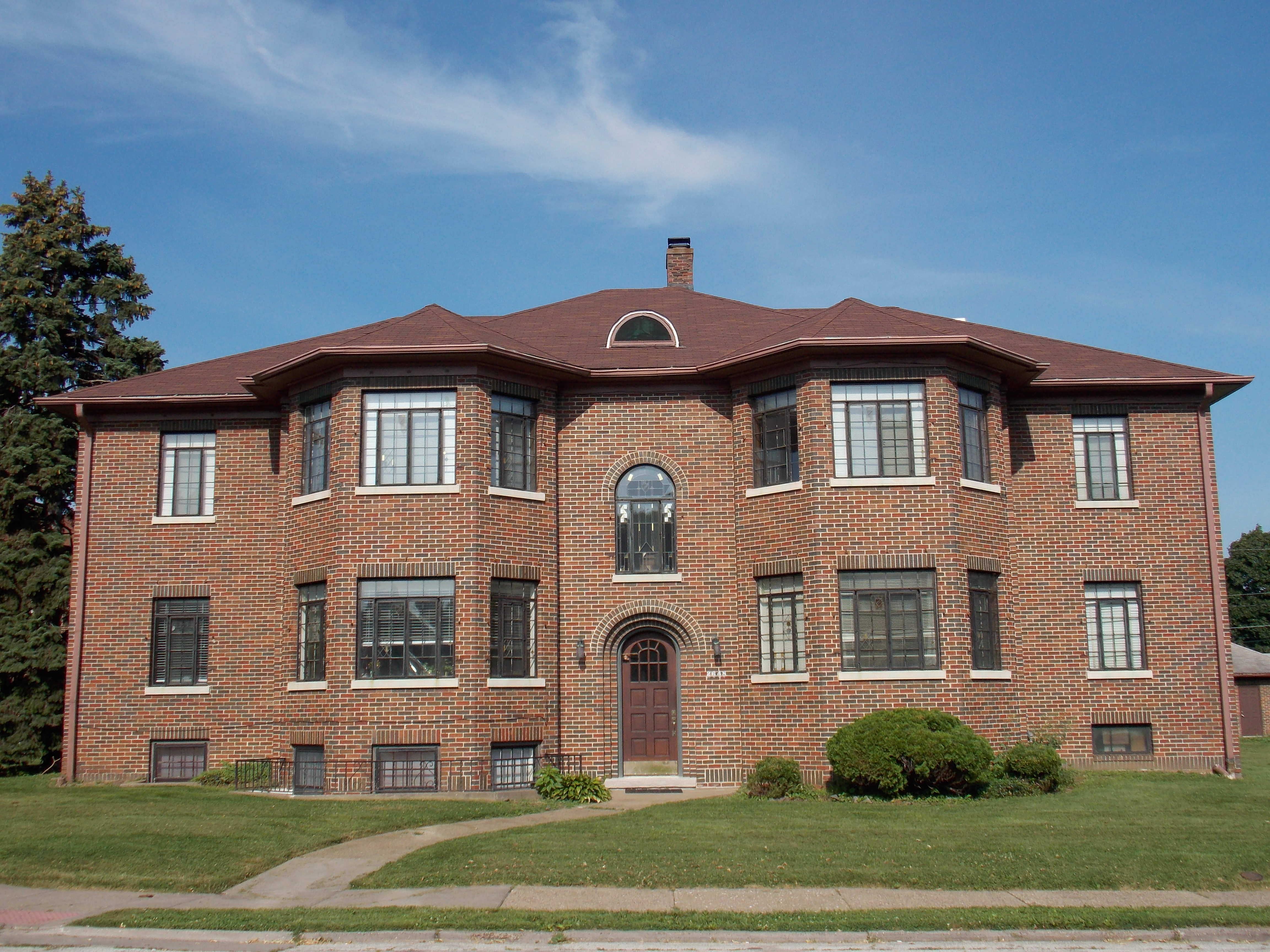 The building at 2648 Ripley Street in Davenport, Iowa is a contributing property in the Columbia Avenue Historic District.